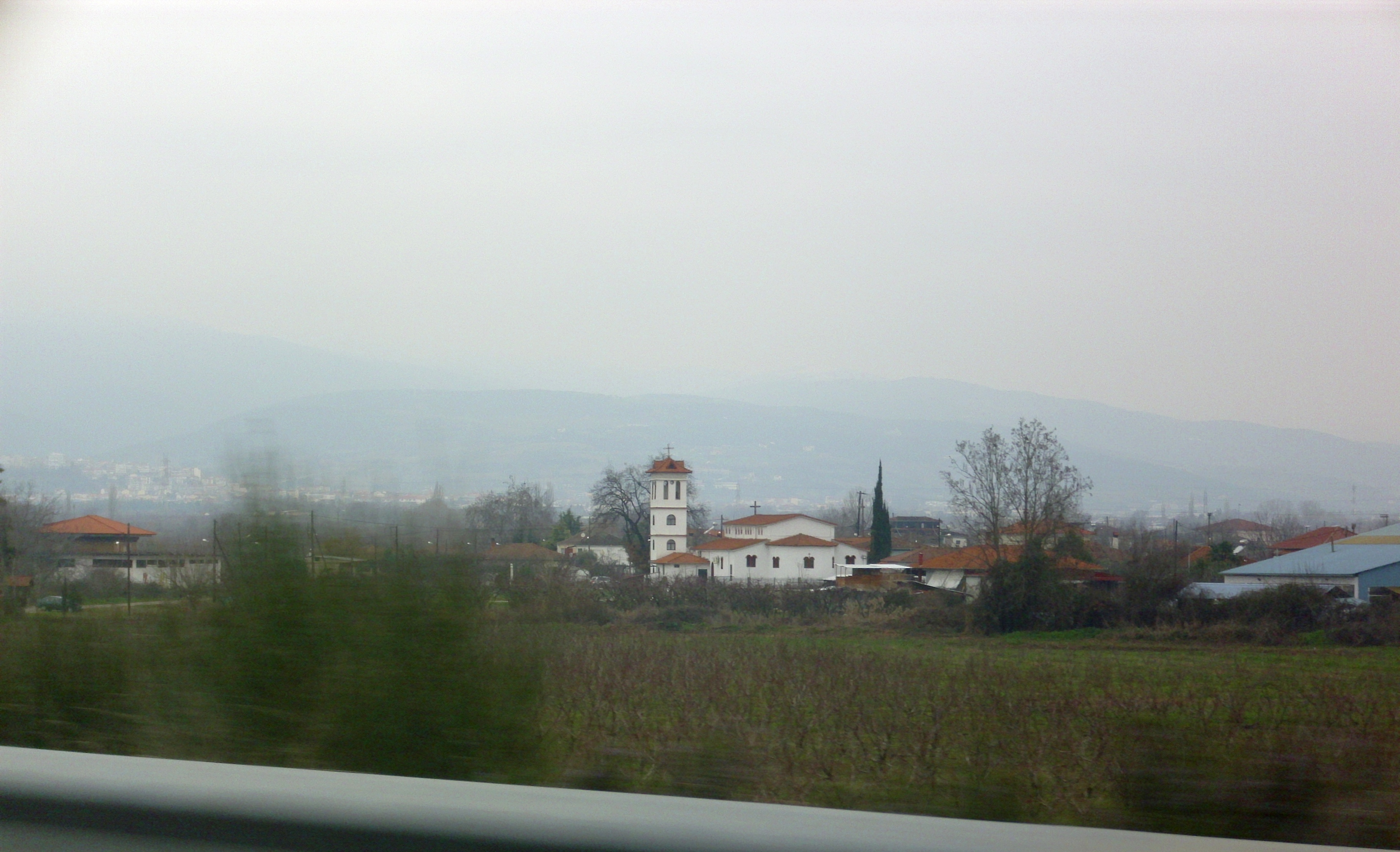 Church of Nisel or Nisseli, Central Macedonia